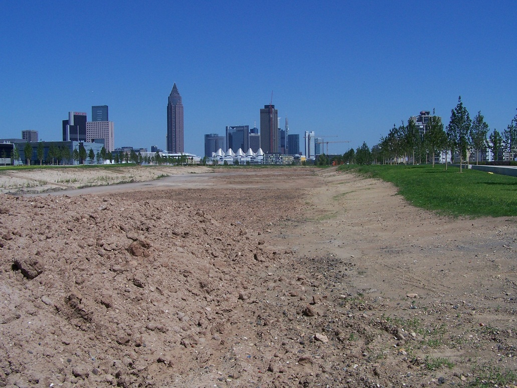 Europagarten, Europaviertel, Frankfurt am Main